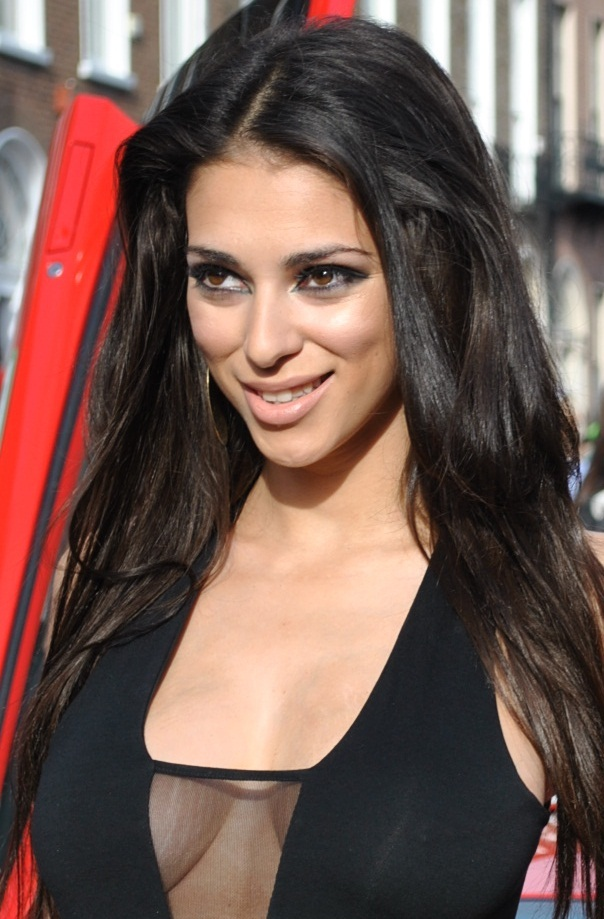 Photo of Georgia Salpa taken at Cannonball Ralley, Dublin 2010